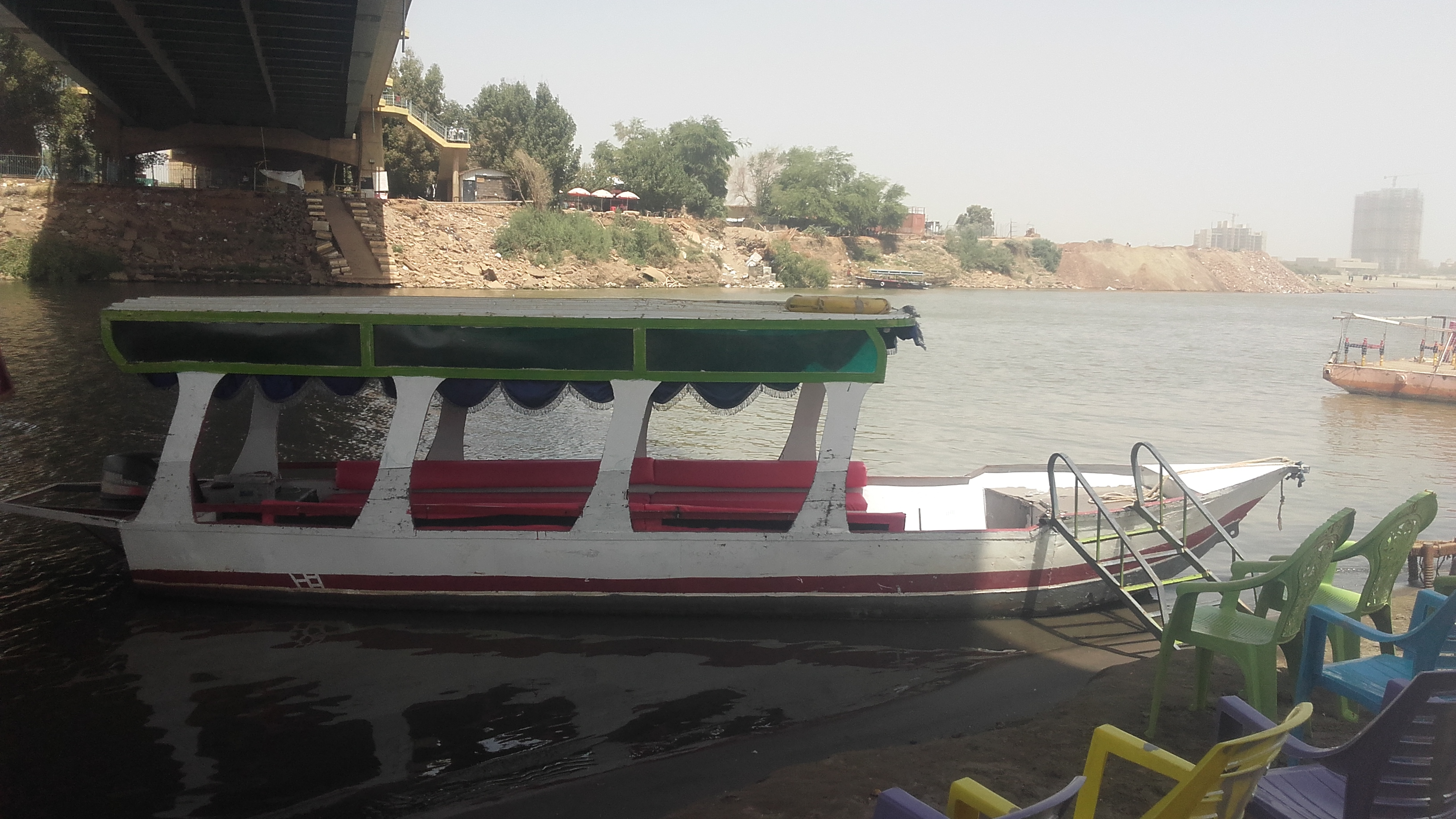 boat on blue nile front of Tuti island This is an image with the theme "Africa on the Move or Transport" from: Sudan